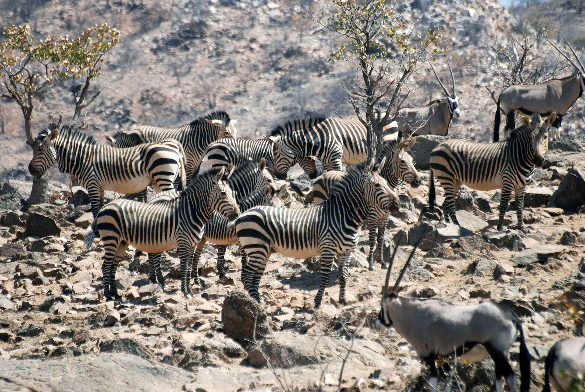 Hartmann zebras, Hobatere Private Reserve, west of Etosha National Park